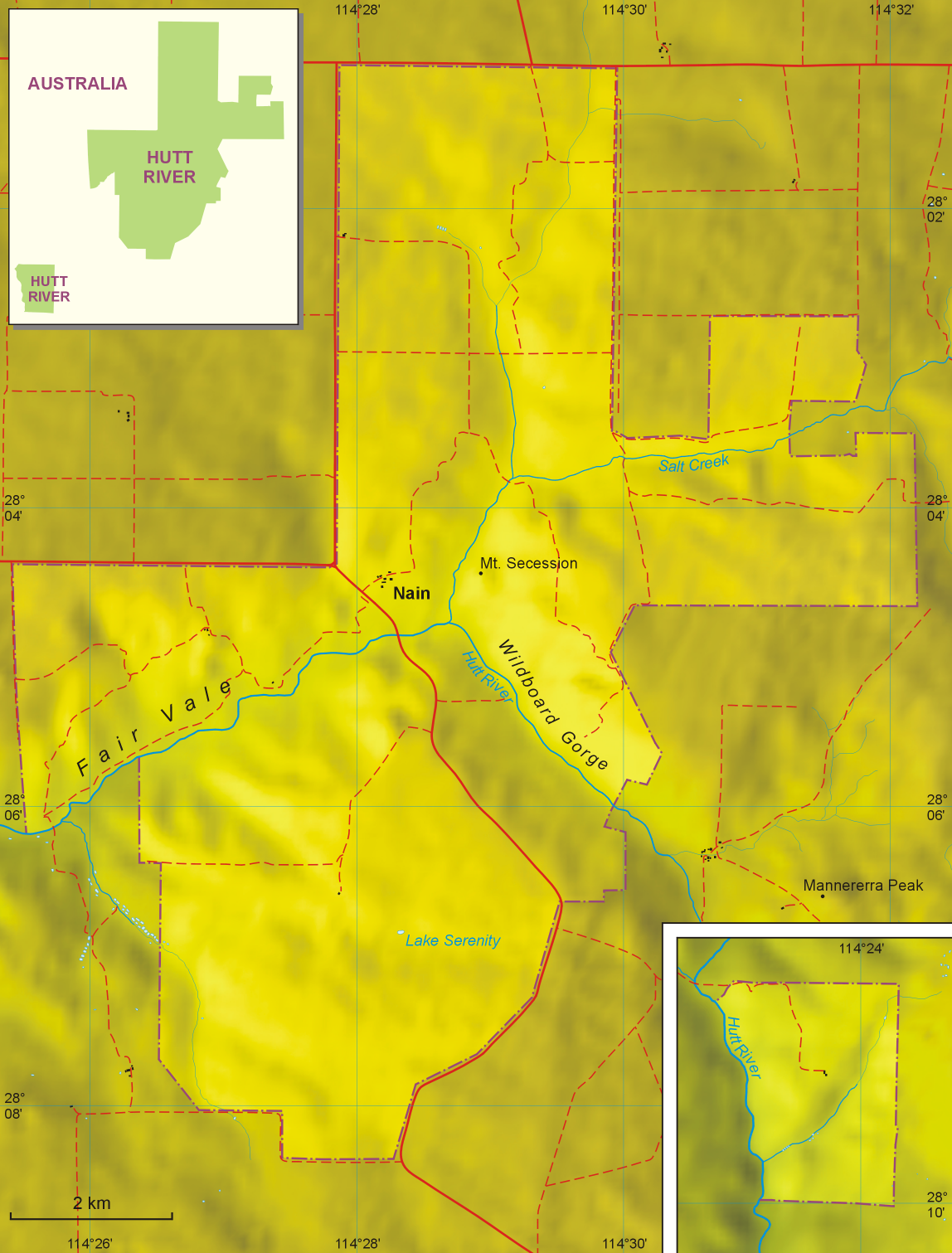 Map of the Principality of Hutt River